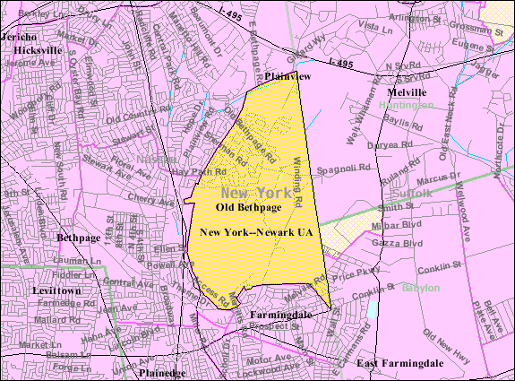 U.S. Census 2000 reference map for Old Bethpage